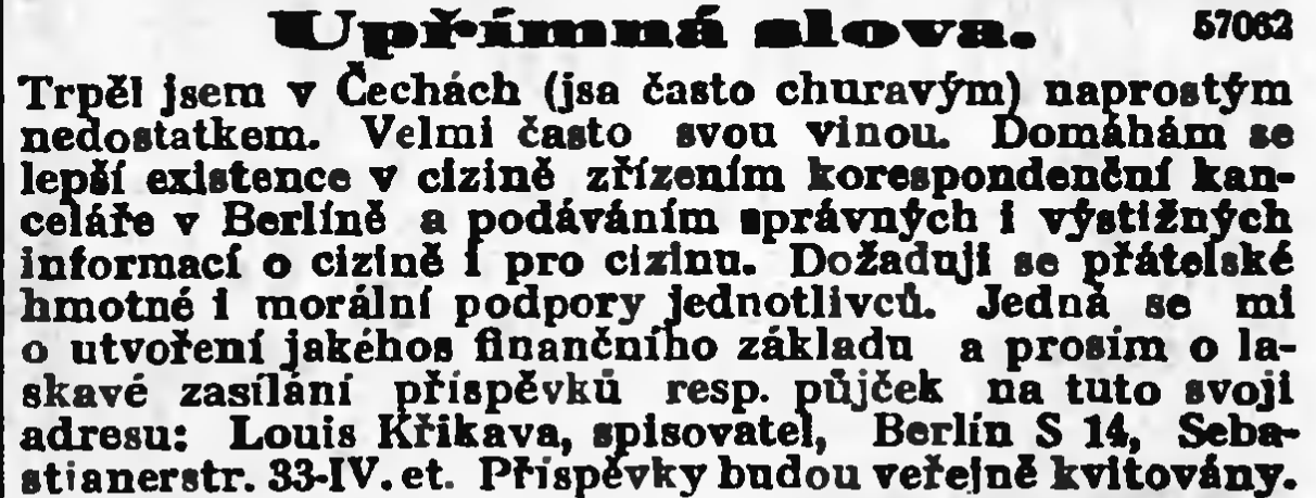 Louis Křikava, Czech writer, newspaper advertisement